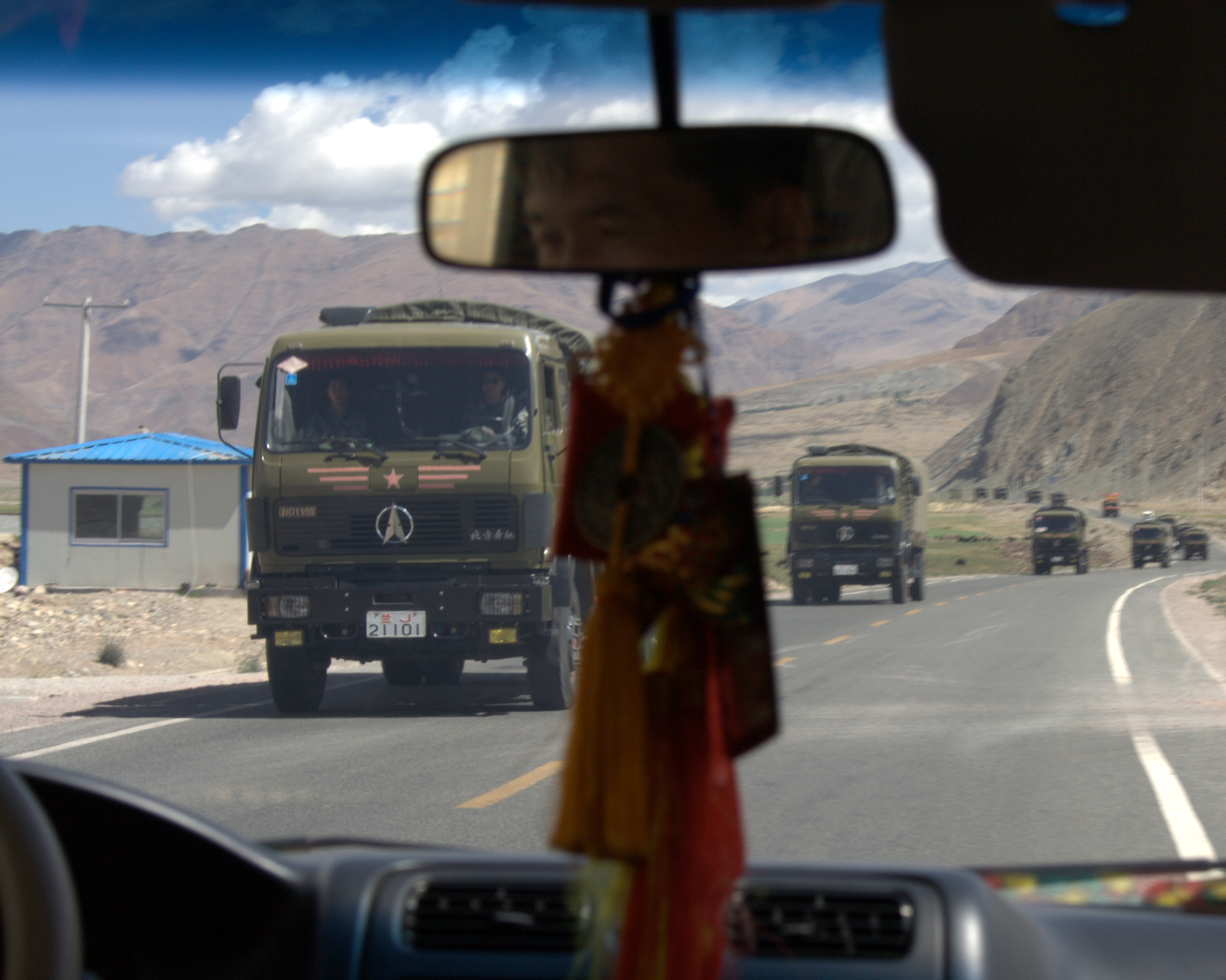 A convoy of Chinese military trucks near Lhasa.